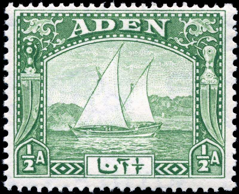 Aden half-anna stamp of 1937